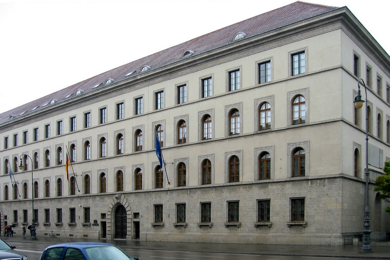 Former Zentralministerialgebäude Munich, Ludwigstraße 2